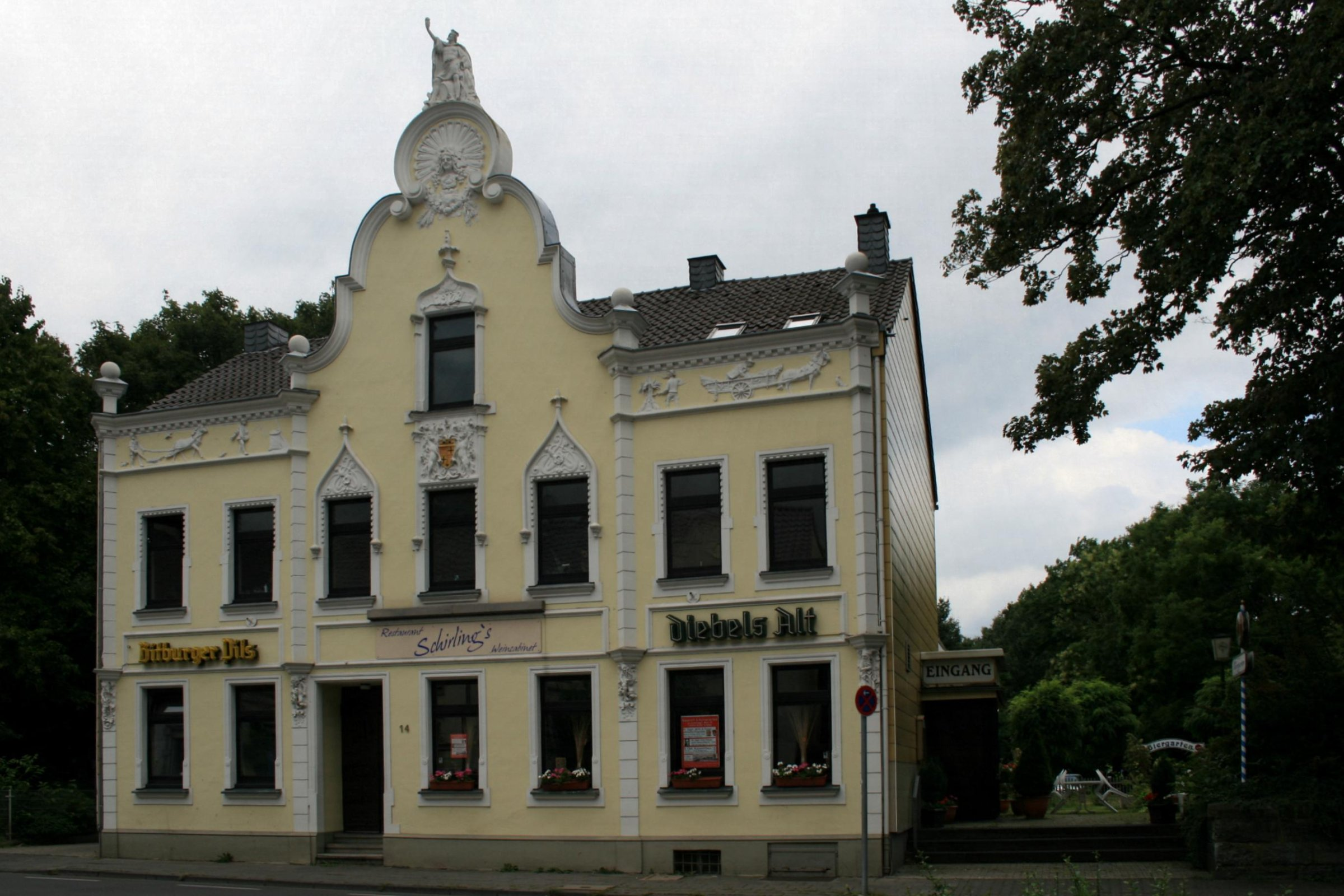 Cultural heritage monument No. M 015 in Mönchengladbach